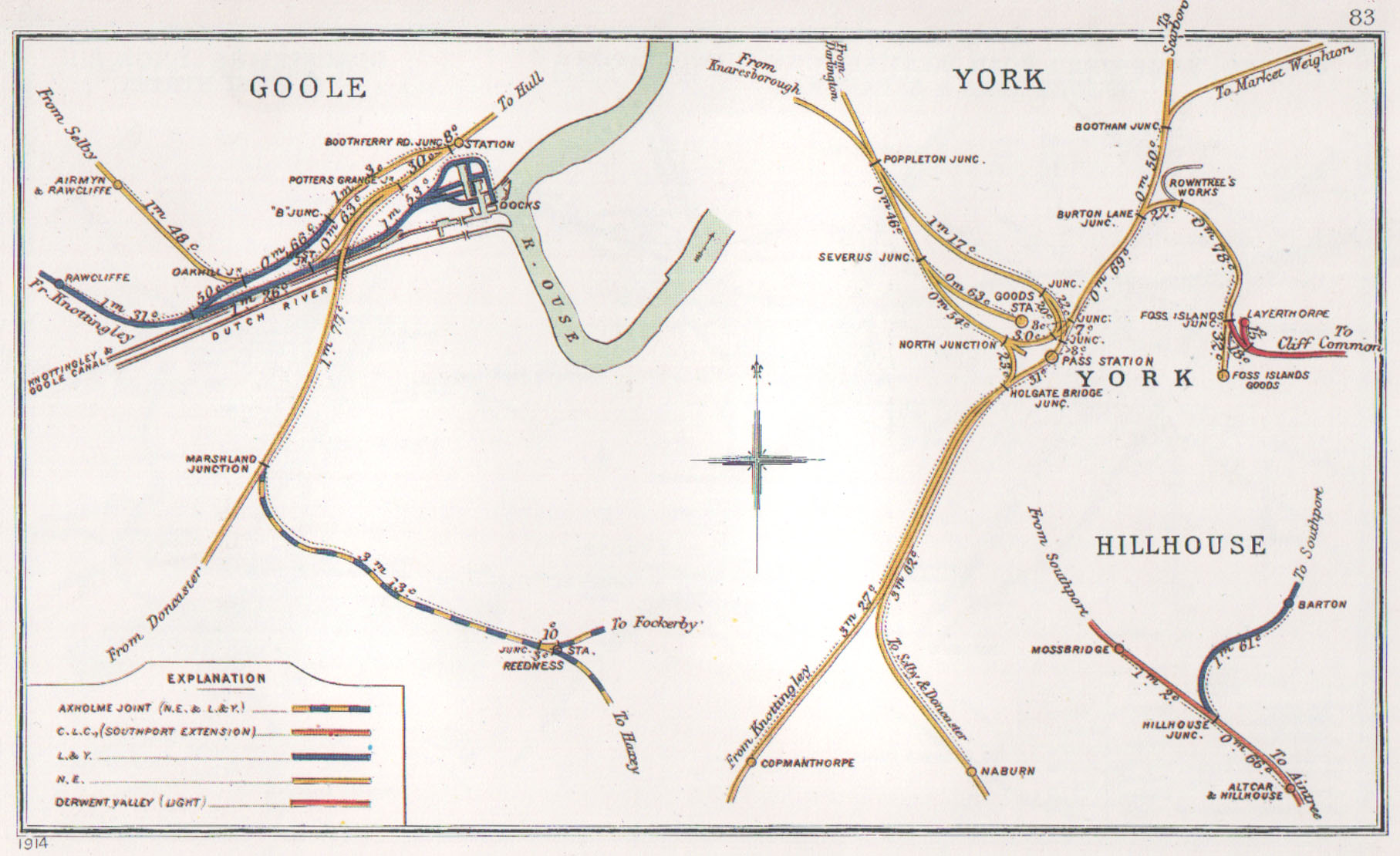 Diagram from the 1914 Railway Clearing House Diagrams. Feature juncions at York and Goole and the junction between the SCLER and the Liverpool, Southport and Preston Junction Railway.